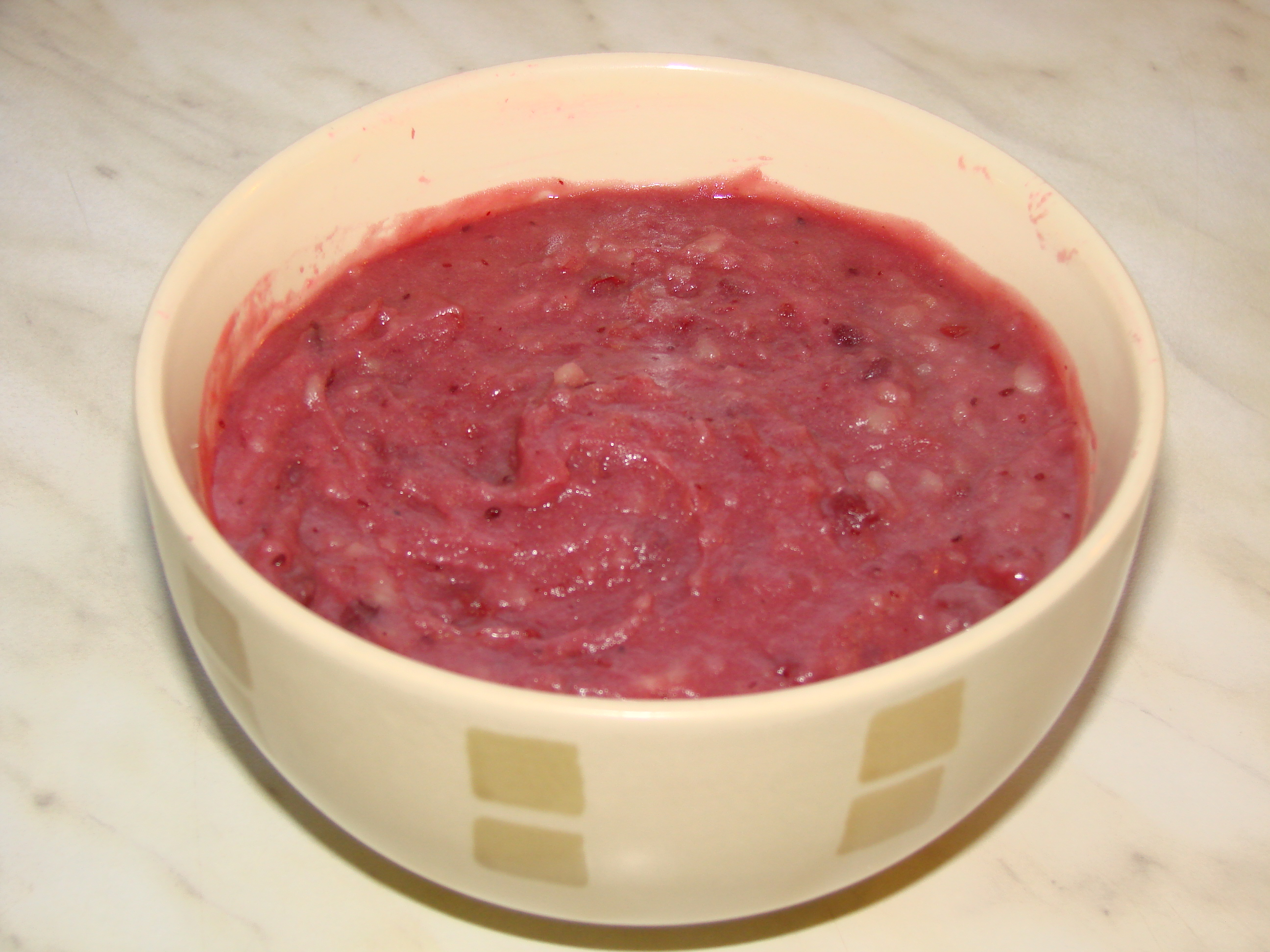 The traditional Nivkh dish - muvi (mashed potatoes with cranberries).